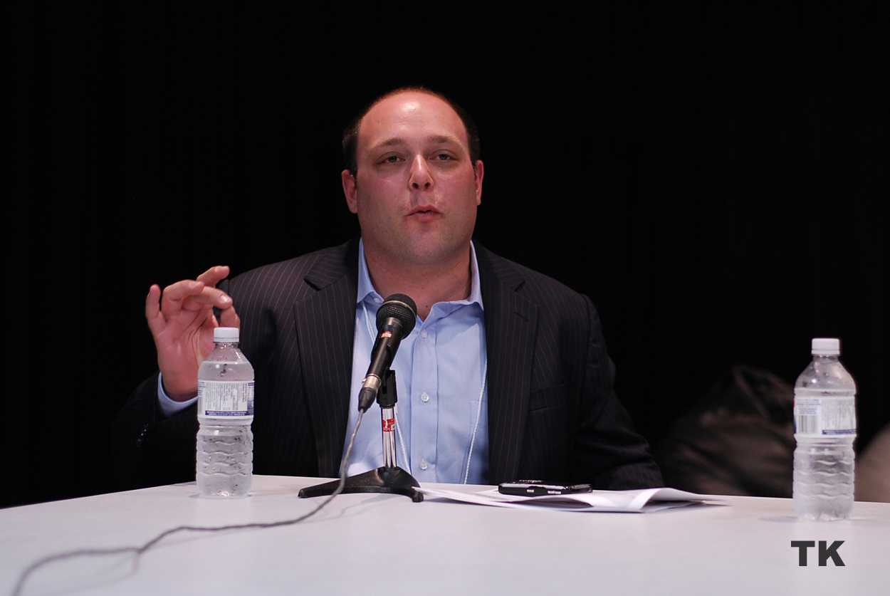 Jaime Stein during a discussion about the role of social media in sports took place at Ryerson's Digital Media Zone.